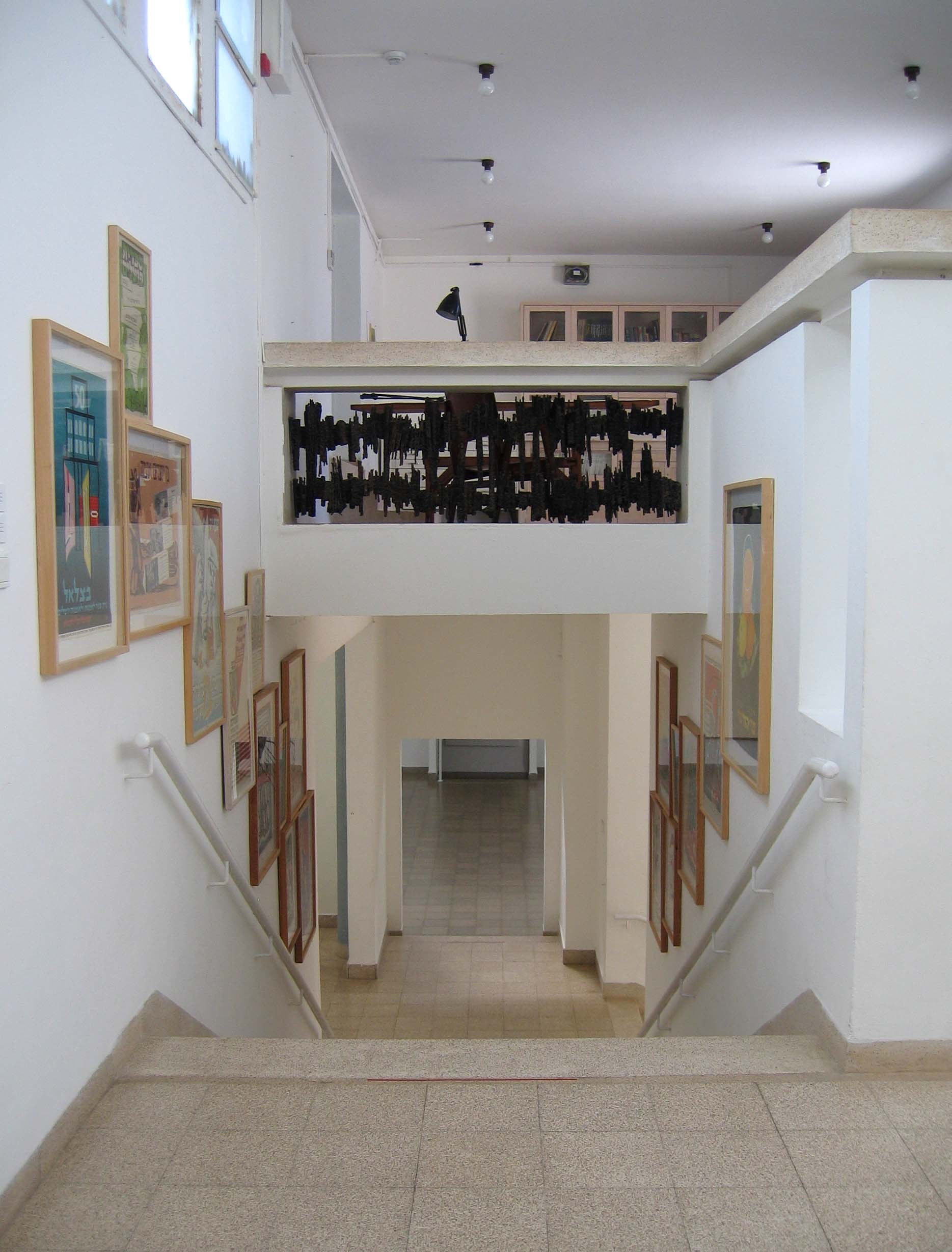 Iron berrier by David Palombo at the Museum of Art, Ein Harod